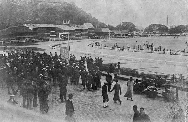 Racecourse in Happy Valley, Hong Kong.